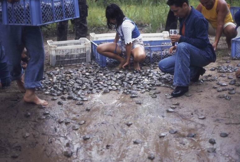 release of young Turtles to wild near Uruguay River created by he:משתמש:בן הטבע